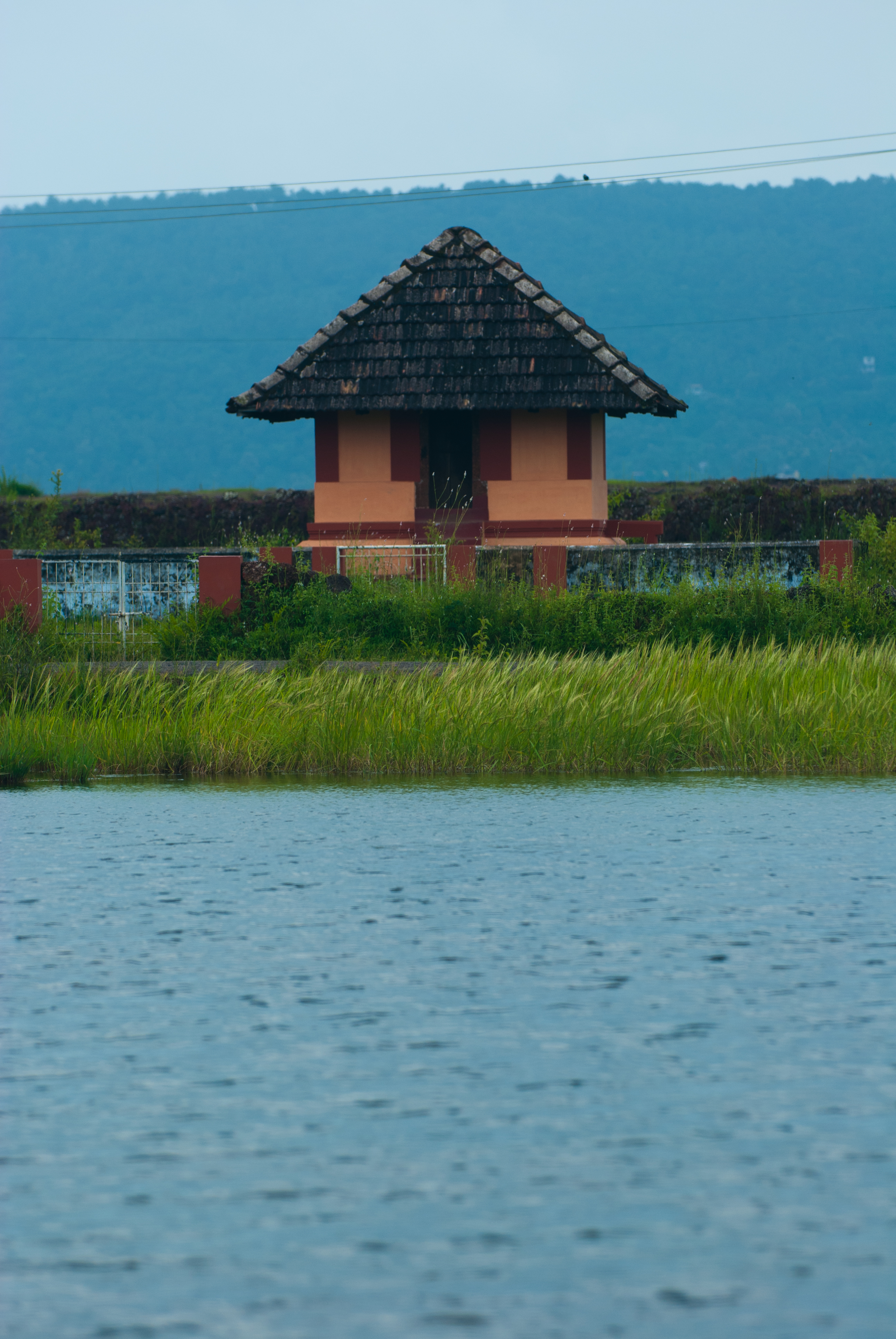 The sacred place in Madayipara , where the harvested rice is kept first during harvest festival.